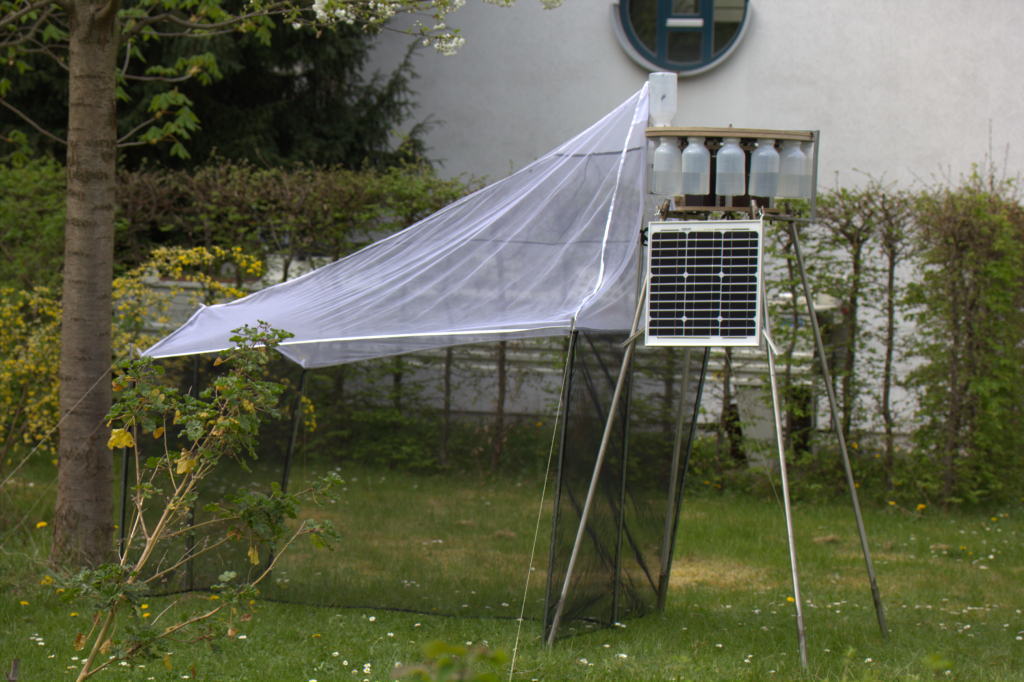 Malaise trap with Automated Malaise Trap Changer (AMTC) prototype, June, 2014 in the garden of Museum Koenig, Bonn, Germany